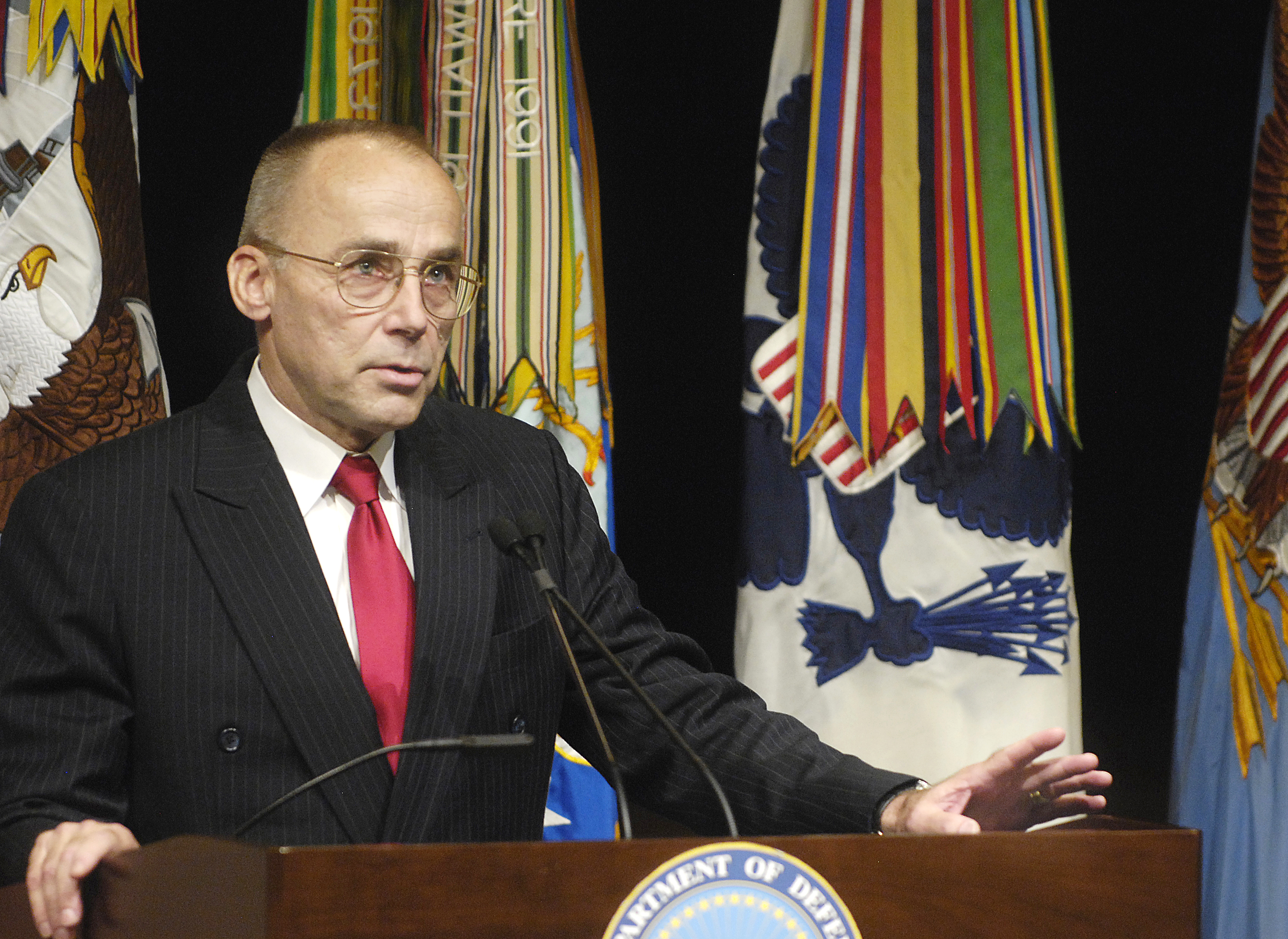 Wallace "Chip" Gregson, assistant defense secretary for Asian and Pacific Security Affairs, addresses the audience during a welcoming ceremony hosted by Defense Secretary Robert M. Gates for three newly appointed senior department officials, including Gregson, at the Pentagon, Aug. 10, 2009.